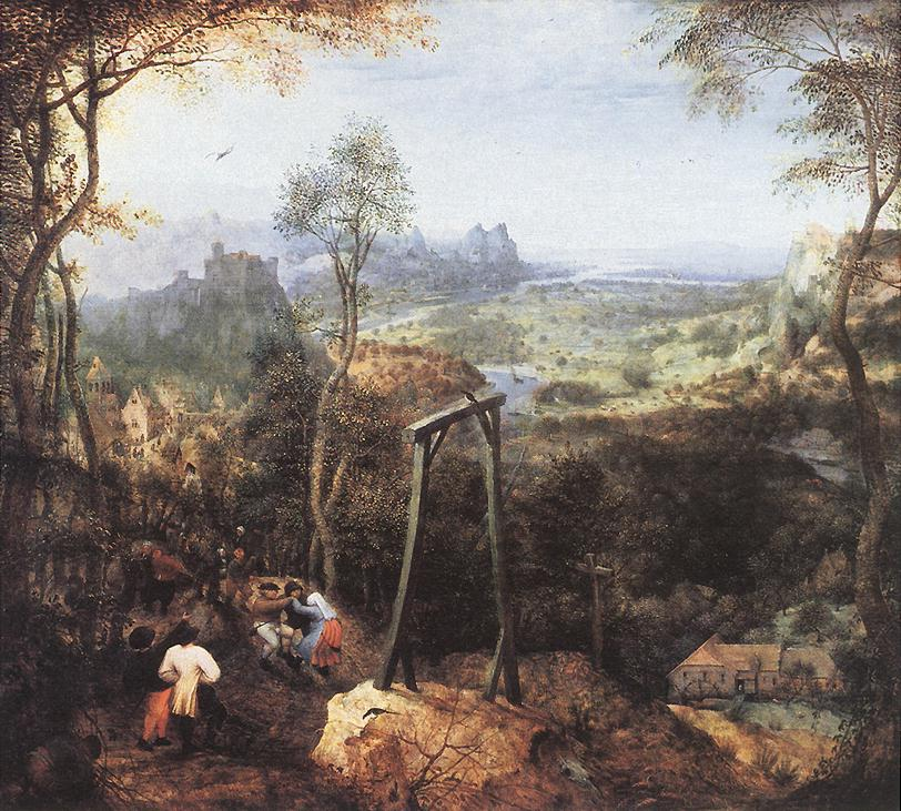 Pieter il Vecchio Bruegel's art